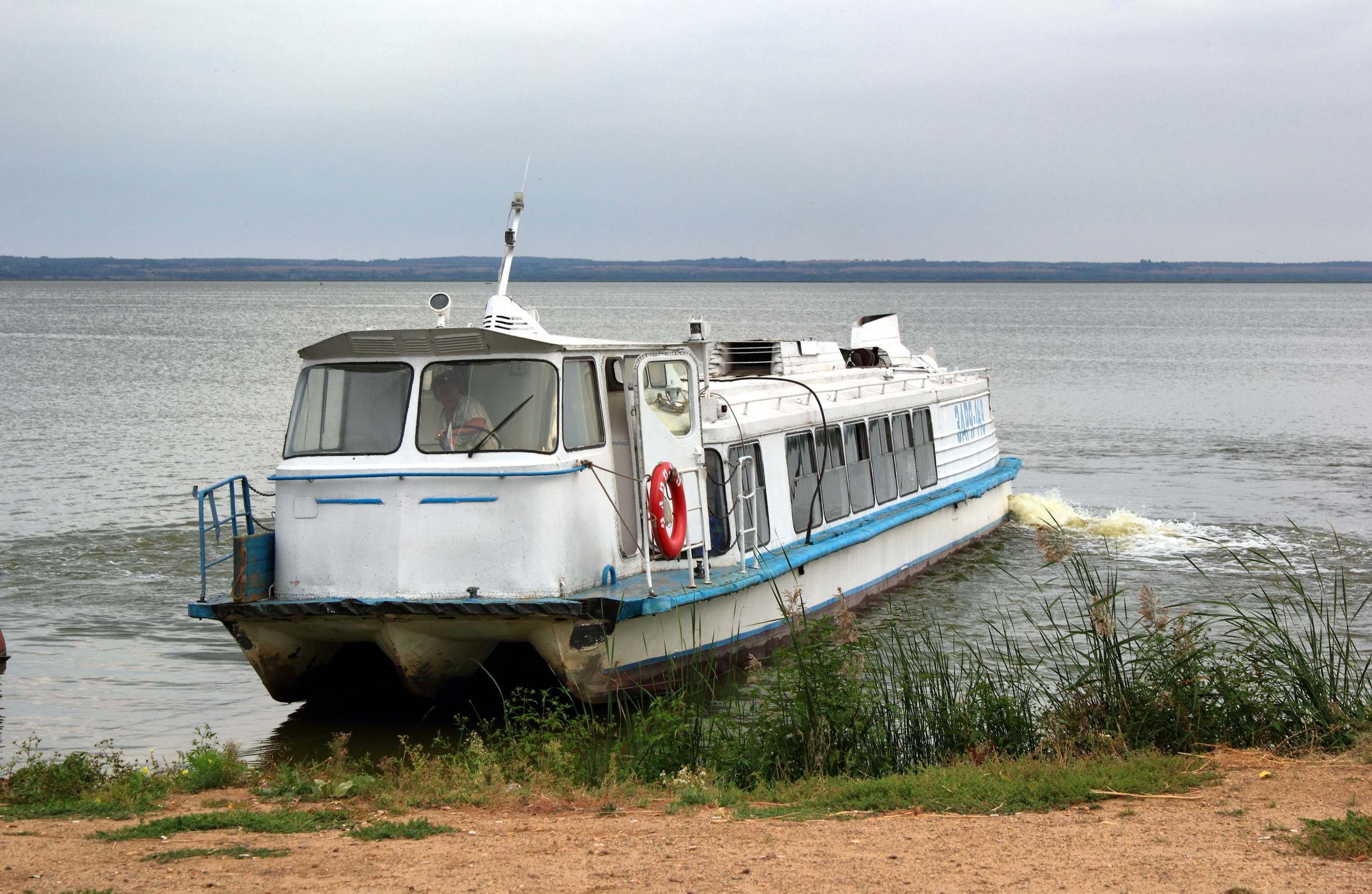 Rostov. Lake Nero. Ship "Zarya"